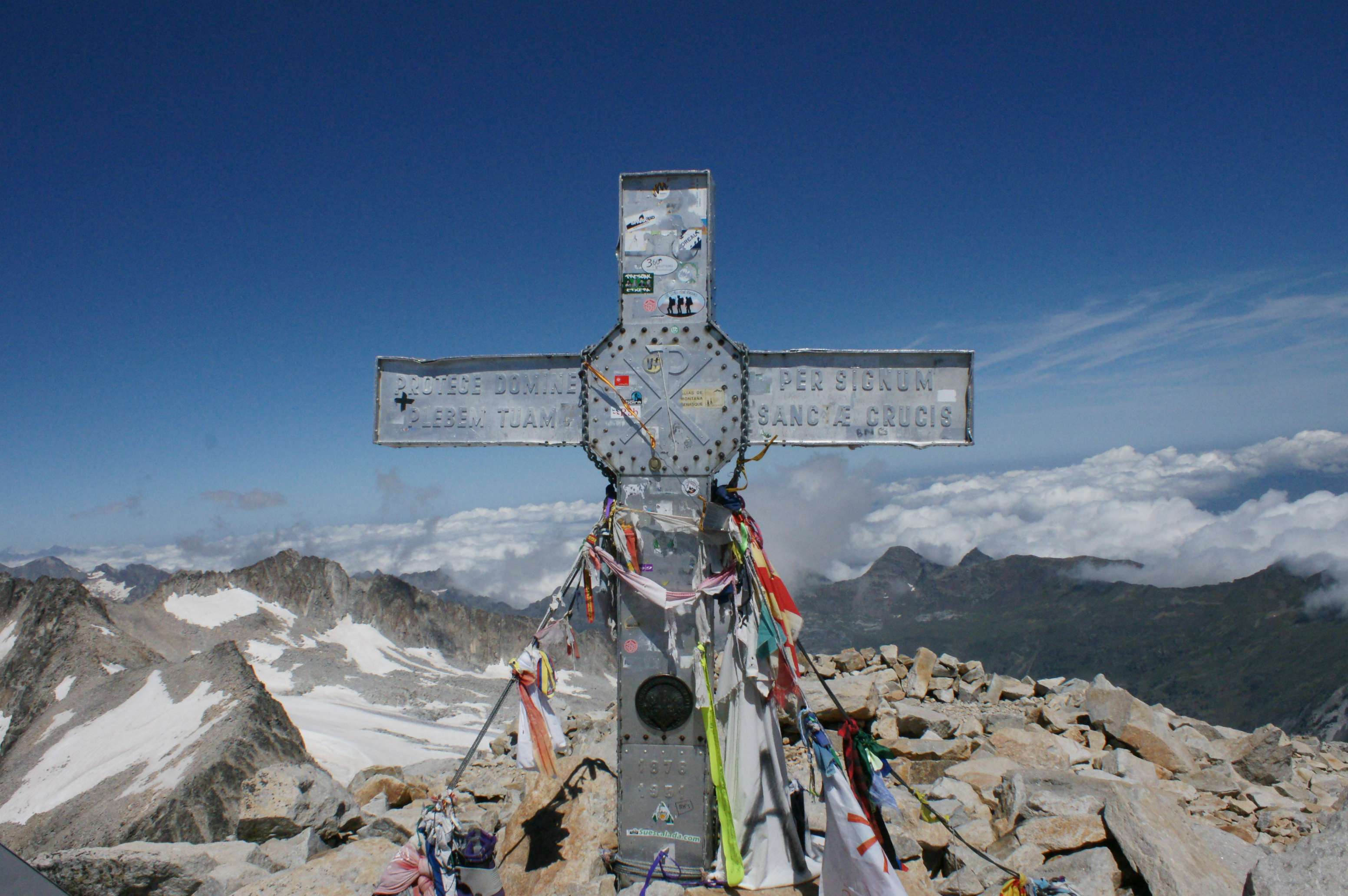 The cross on top of Aneto Peak (3404m), Pyrenees's highest peak